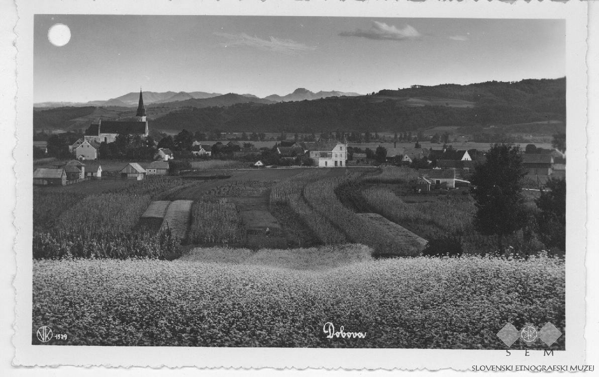 Postcard of Dobova